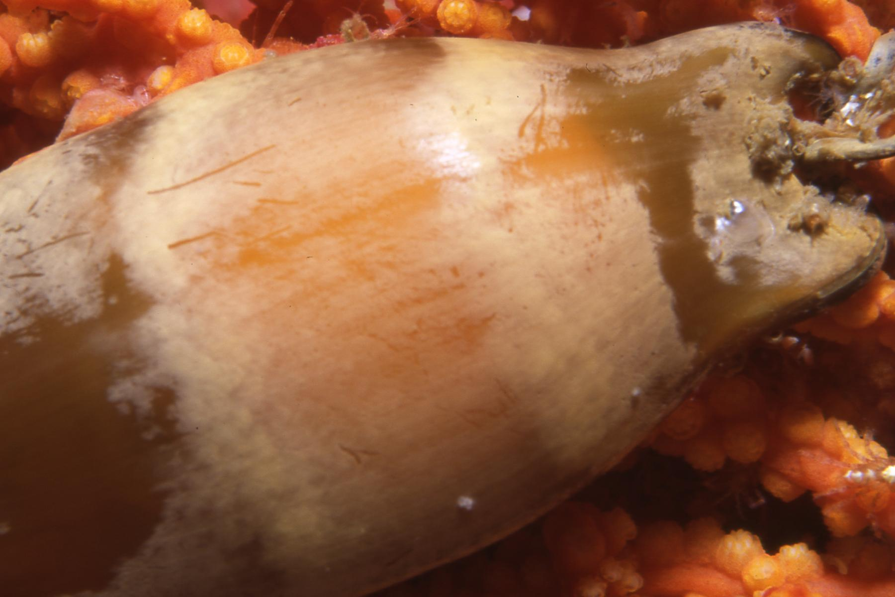 a photo of the egg case of a puffadder shyshark, Haploblepharus edwardsii, taken in 20m of water off the Cape Peninsula using a Nikonos V camera